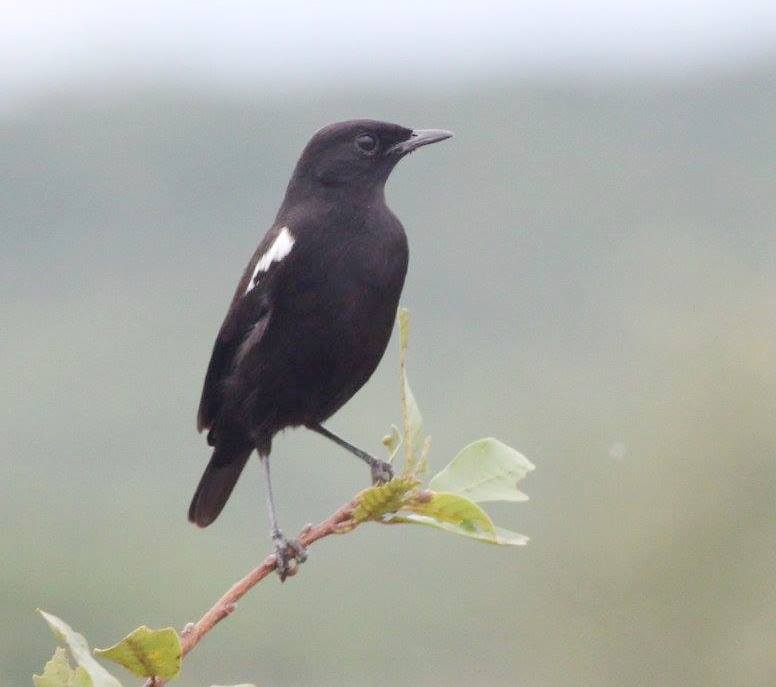 A male Sooty chat at Linunga in Angola